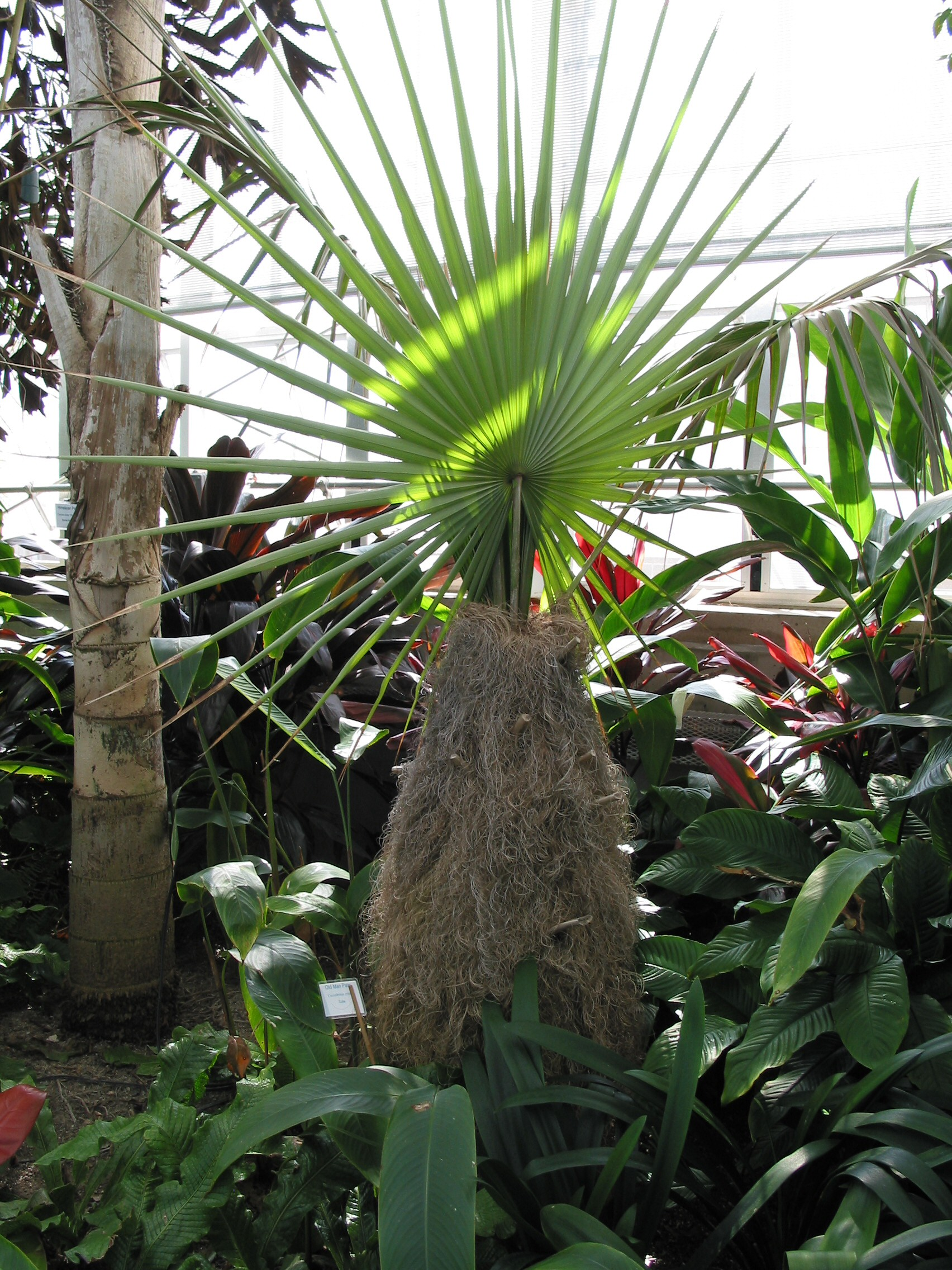 Coccothrinax crinita "Old Man Palm" Roger Williams Park Botanical Center - Providence RI.